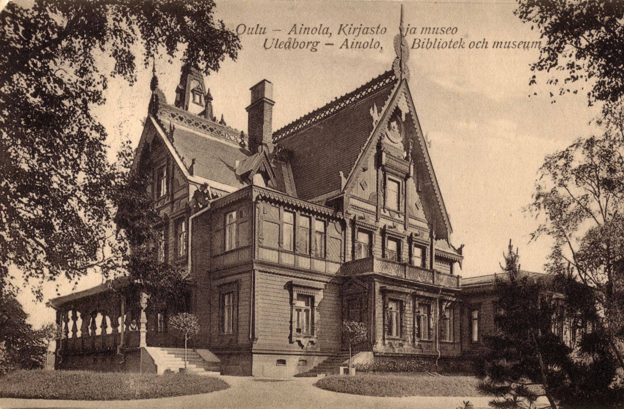 A postcard of Ainola museum and library. It was designed by Swedish architect J. E. Stenberg and completed in 1888. Building was destroyed in a fire in 1929.